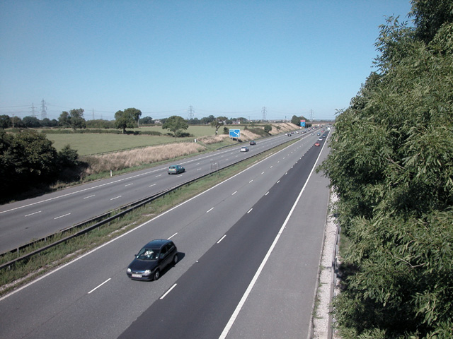 M56 Motorway. View north east from Thornton Green Lane.